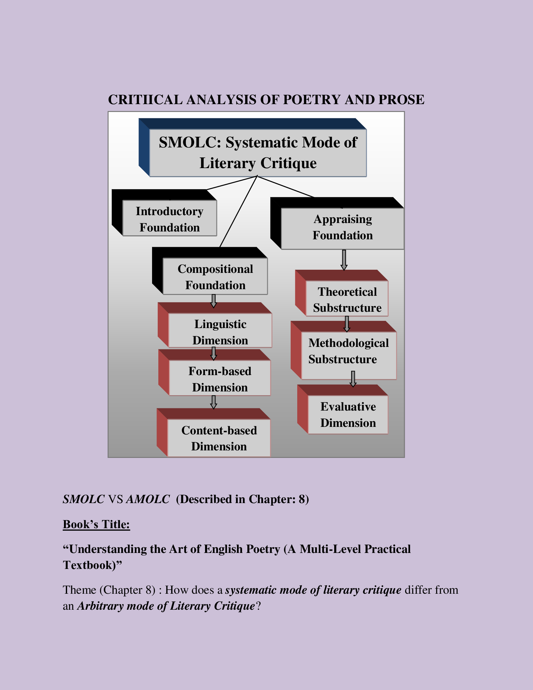 Literary Criticism Model of Literary Criticism SMOLC